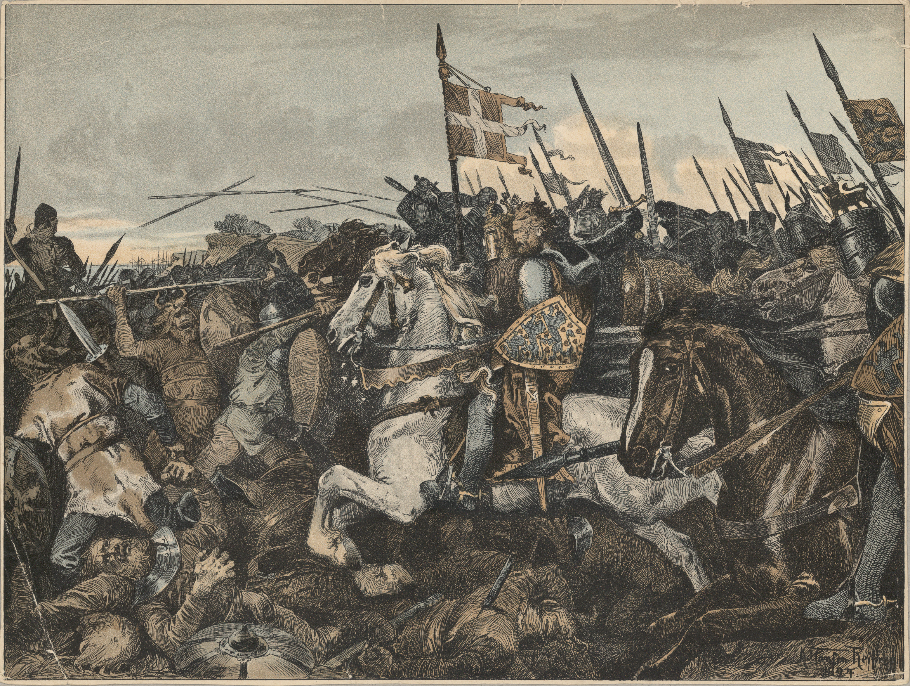 In the early summer of 1219 the Danish king Valdemar II went to Estonia with an army and fleet, on a combined crusade/landgrab. On June 15 the Estonians attacked and the legend tells us that a red and white flag (the present Danish flag Dannebrog) descended from the sky and led the Danes to victory. Later historians have pointed out that the flag is more or less identical to the banner of the Knights Hospitallers, often seen on crusades at the time. Colour lithograph on paper, glued on cardboard. Signed lower right: K. Hansen Reistrup 1894. Text (not viewable in this crop): Danmarks Historie i Billeder XXIV Volmerslaget. Alfred Jacobsens litogr. Etablissement, København K. Published in 1898, documented in V.E. Clausen: Folkelig grafik i Skandinavien, 1973, page 144.